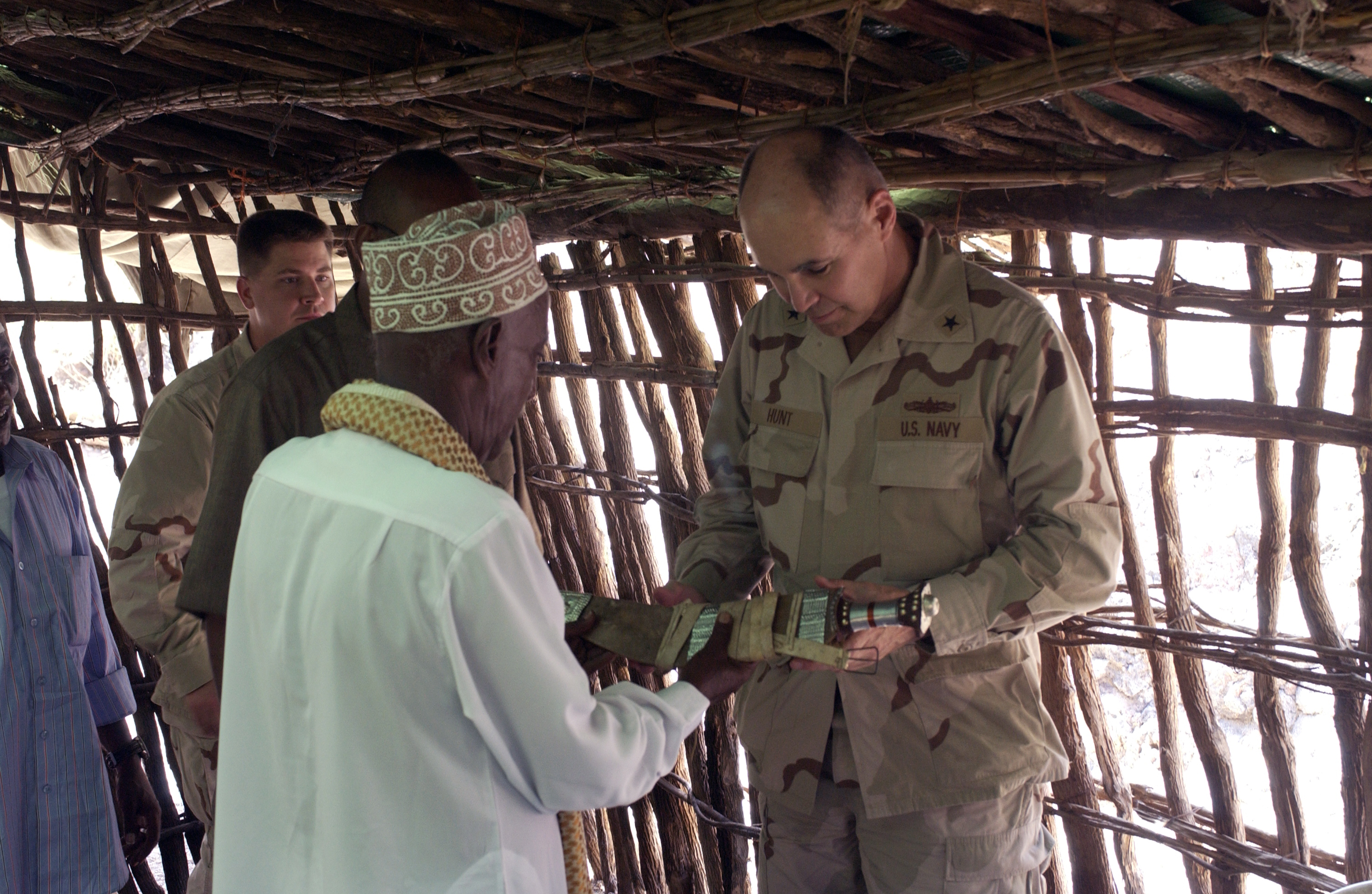 Bankouale, Djibouti (May 18, 2006) - The Sultan of Tadjoura Abdoulaker Moumat Houmed, left, hosts Commander of Combined Joint Task Force Horn of Africa Rear Adm. Richard W. Hunt at his home near Tadjoura, Djibouti for lunch and a ceremonial exchange of gifts. The Sultan presents Hunt with a ceremonial sword which can only be worn by those with a station of Chief or above in the Afaar community. Hunt is the first American to meet with the tribal leader of the Afar people, a nomadic group of tribes who live in Djibouti, Eritrea and Ethiopia. The United States military has established a presence in the Horn of Africa in order to deter terrorism, and deny a foothold to terrorist groups.